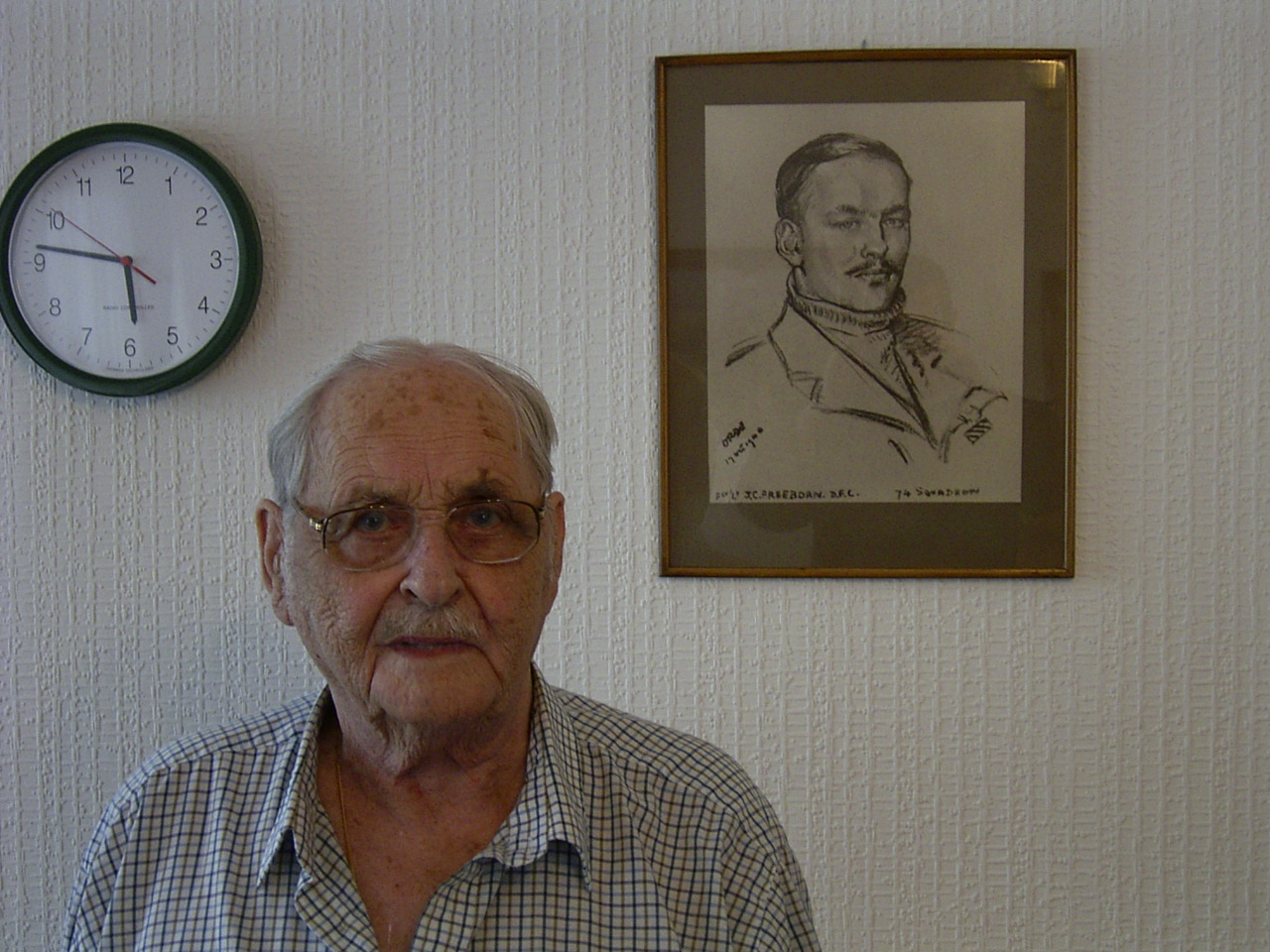 John Freeborn with his portrait drawn during the Battle of Britain by Cuthbert Orde, 2004